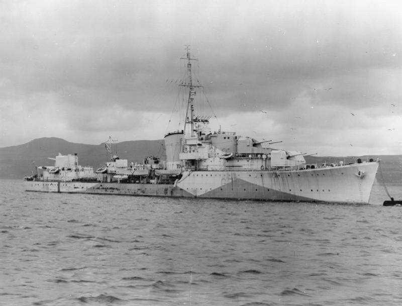 Photograph of British destroyer HMS Meteor (G74)